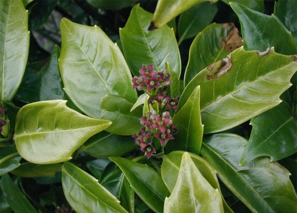 Aucuba japonica: Flowers and leaves.